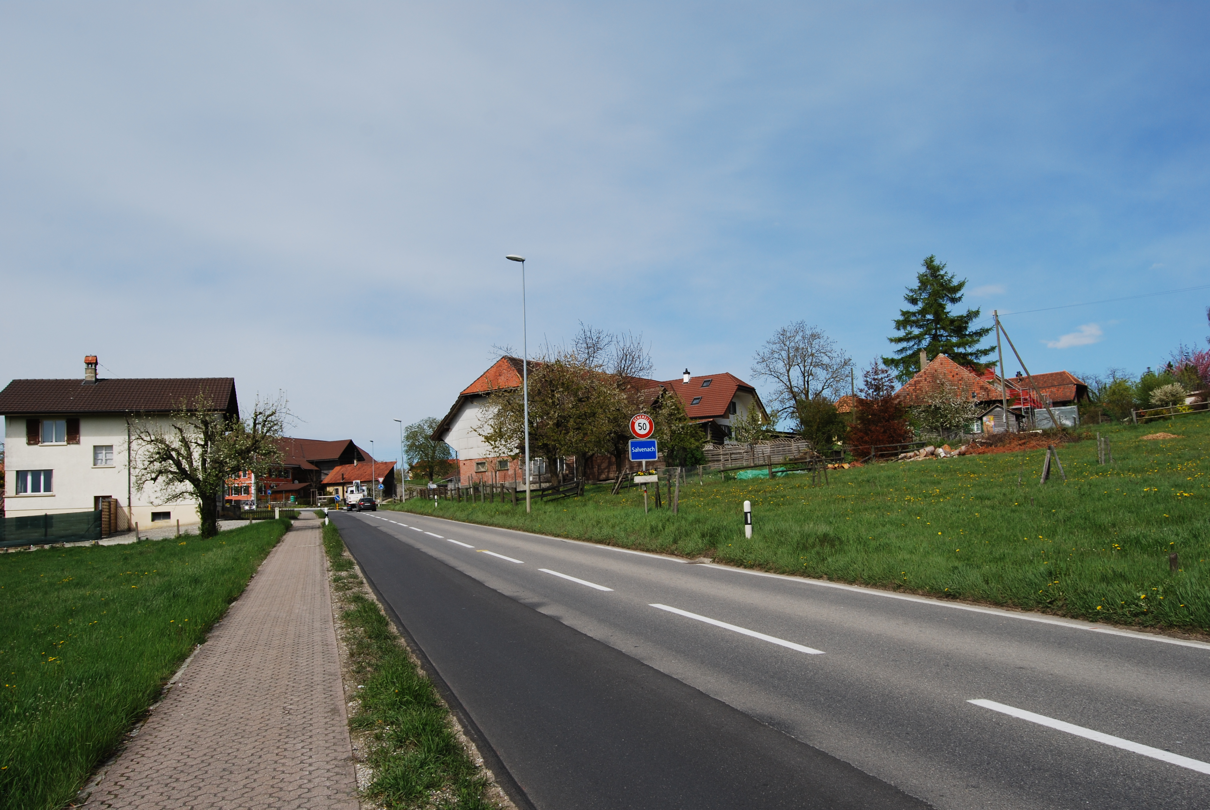 Salvenach, canton of Fribourg, SwitzerlandEsperanto: Salvenach, Kantono Friburgo, Svislando